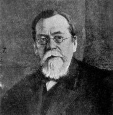 August Ahlqvist, Finnish professor, linguist and poet